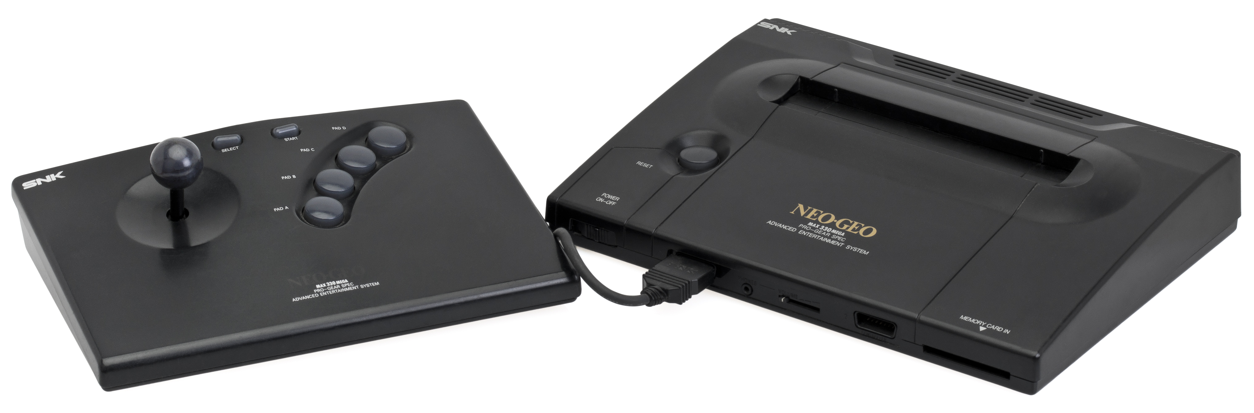 The Neo Geo AES video game console, released by SNK in 1991.